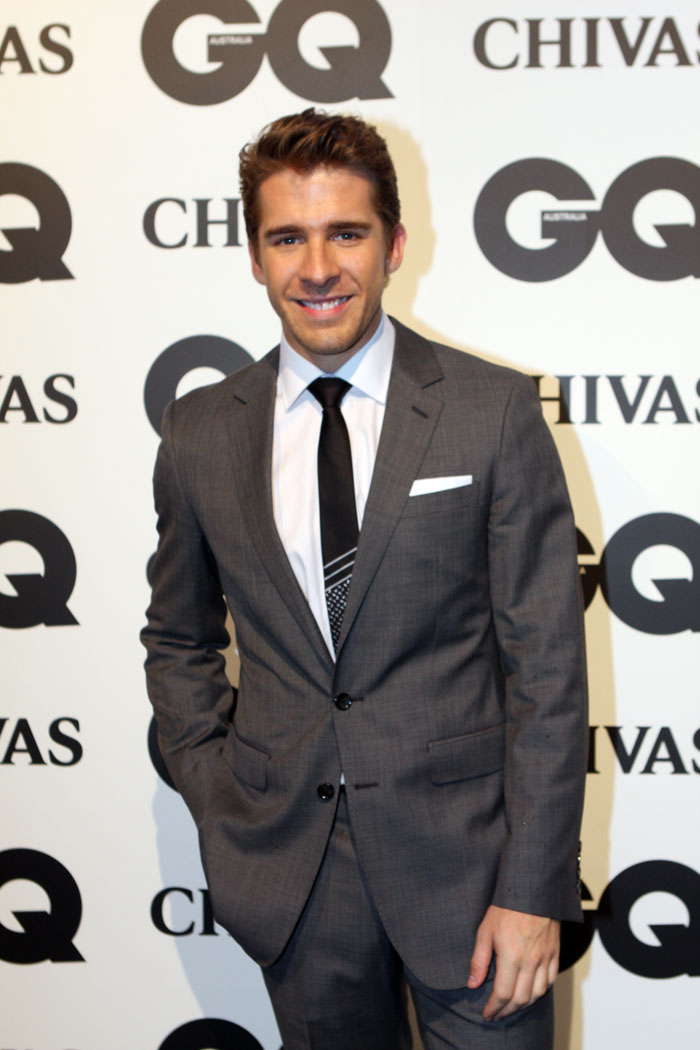 Australian actor, Hugh Sheridan at the 2011 GQ Men of the Year Award